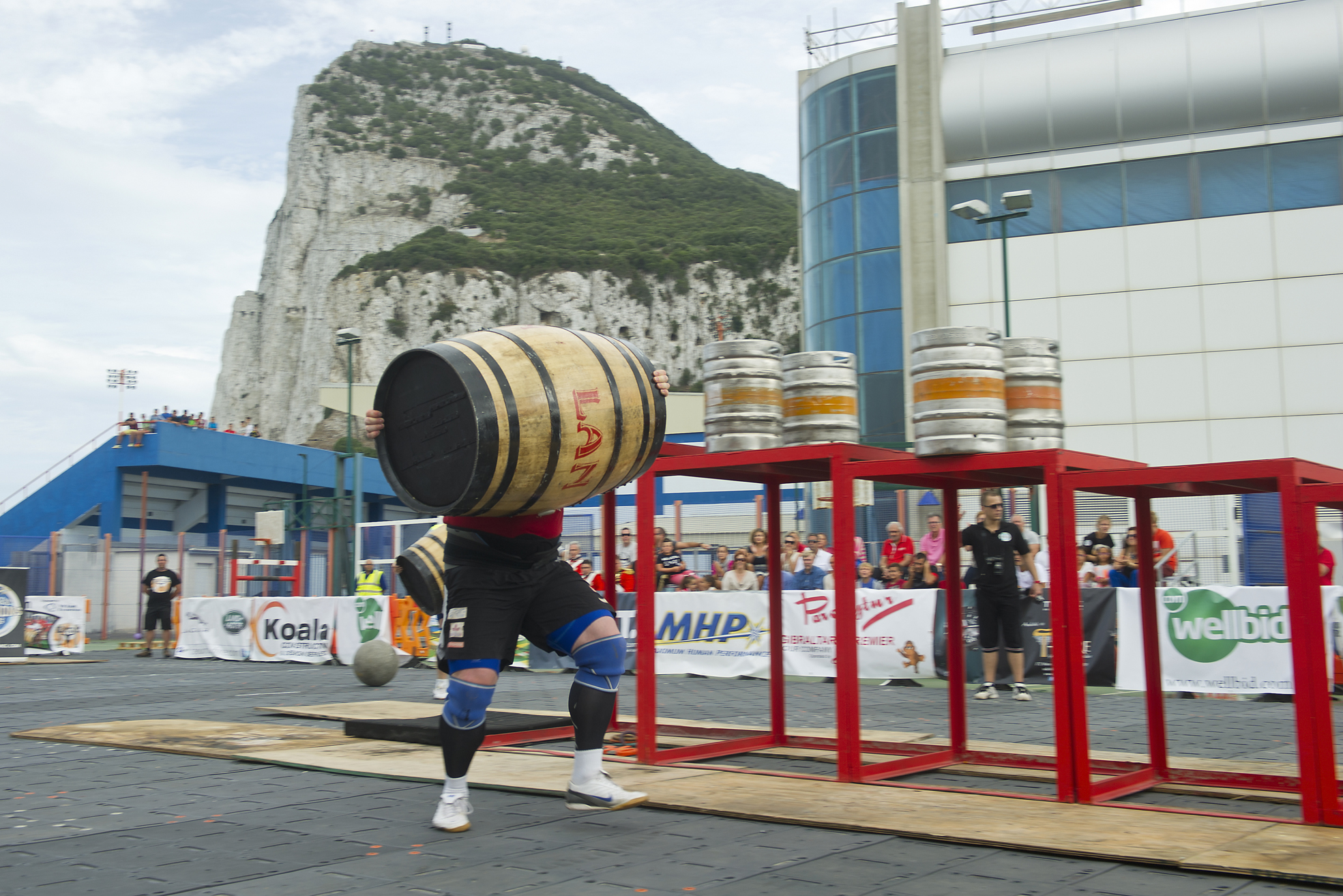 Strongman Champions League in Gibraltar.